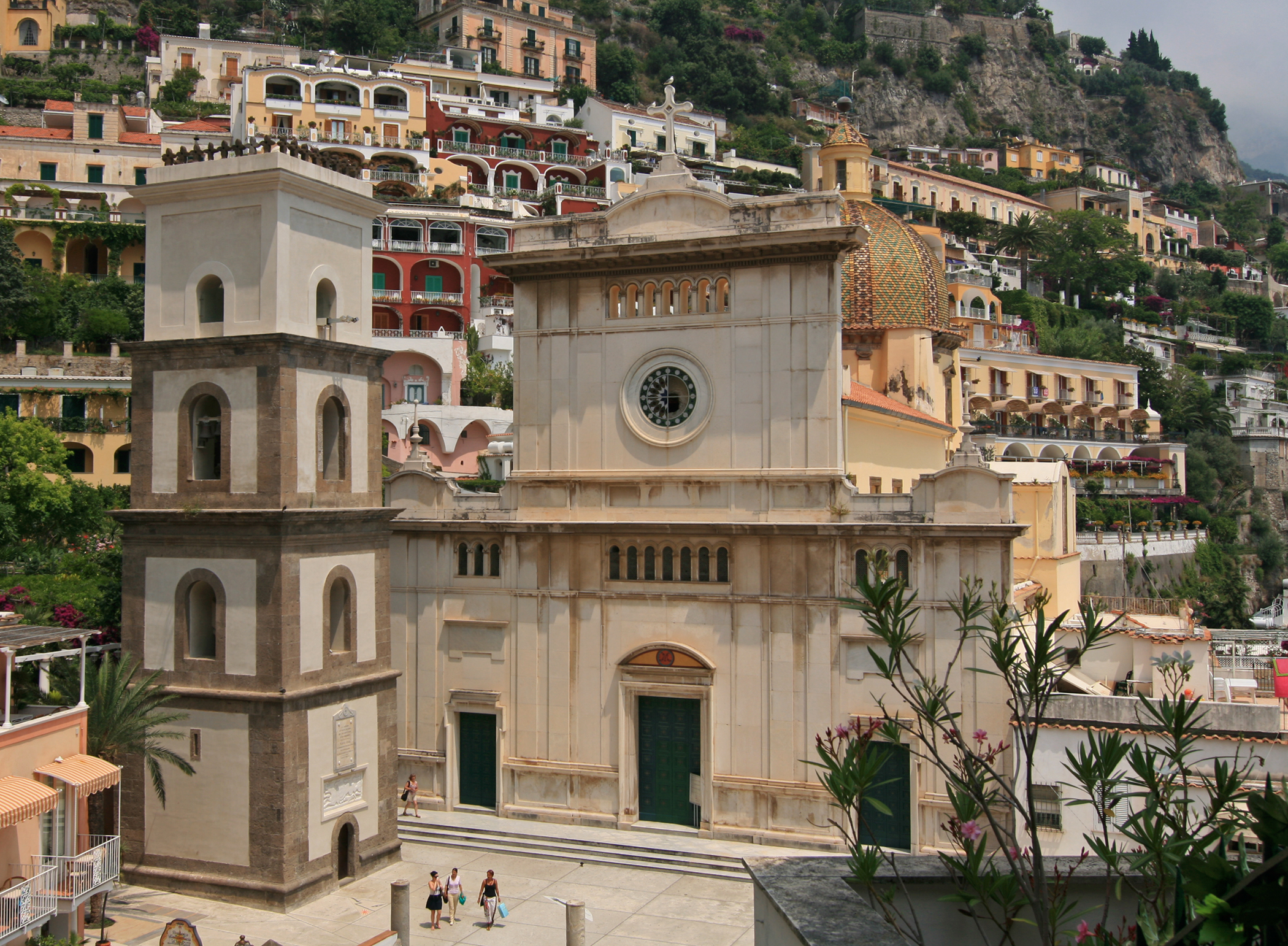 Church of Santa Maria Assunta, Positano, Italy.